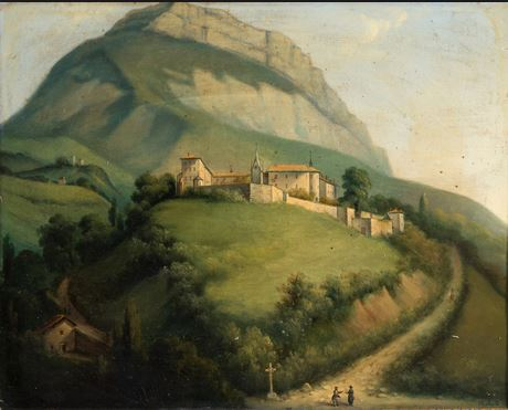 Montfleury à Corenc, depuis la Croix